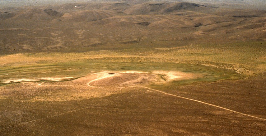 Aerial view of Diana's Punchbowl, a hot spring in Monitor Valley, Nye County, Nevada